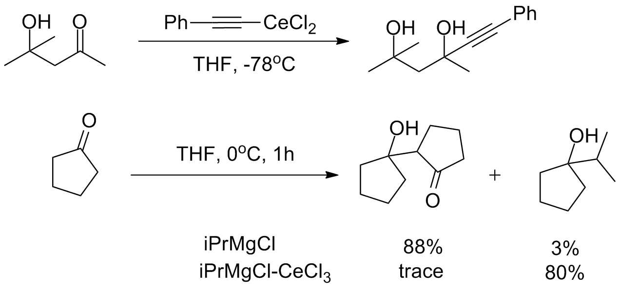 nonbasic tendencies in organocerium reagents